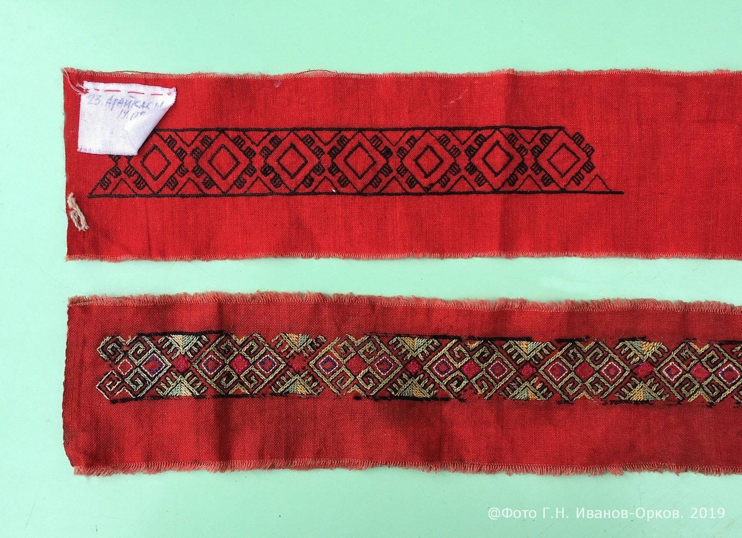 Traditional embroidery